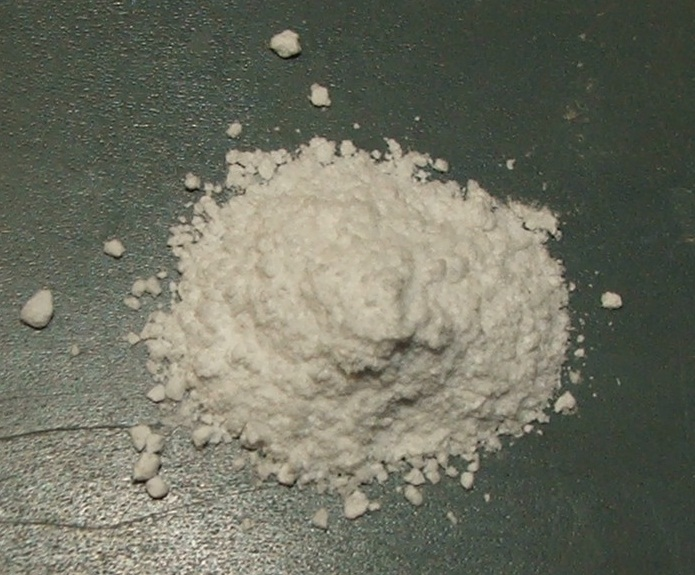 Ammonium carbonate